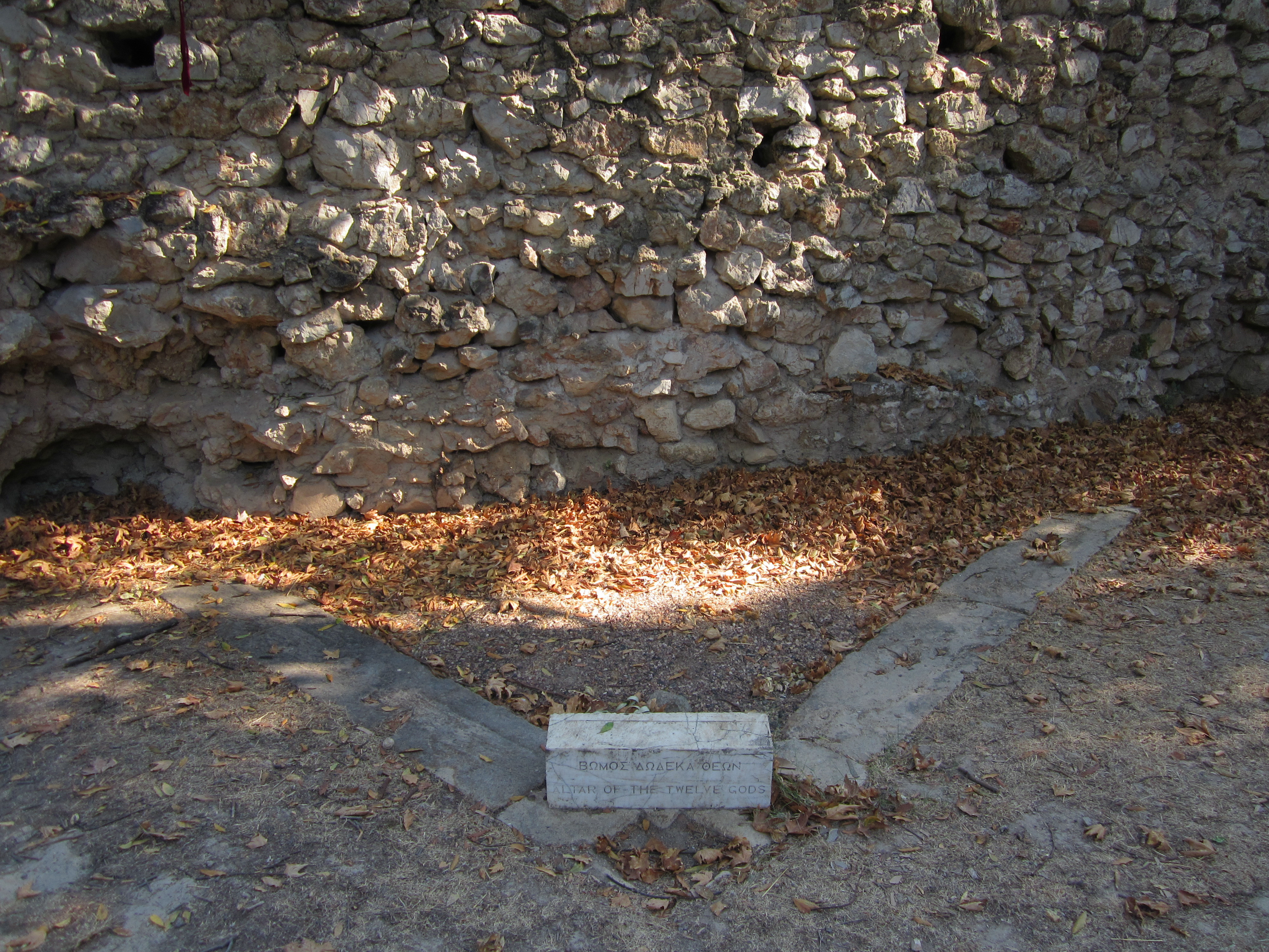 Altar of the Twelve Gods. Ancient Agora of Athens, Greece.